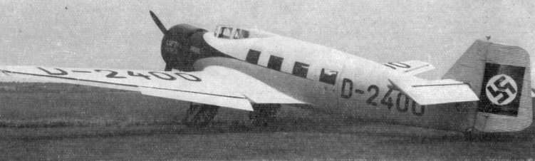 Junkers Ju 60 photo from L'Aerophile August 1933